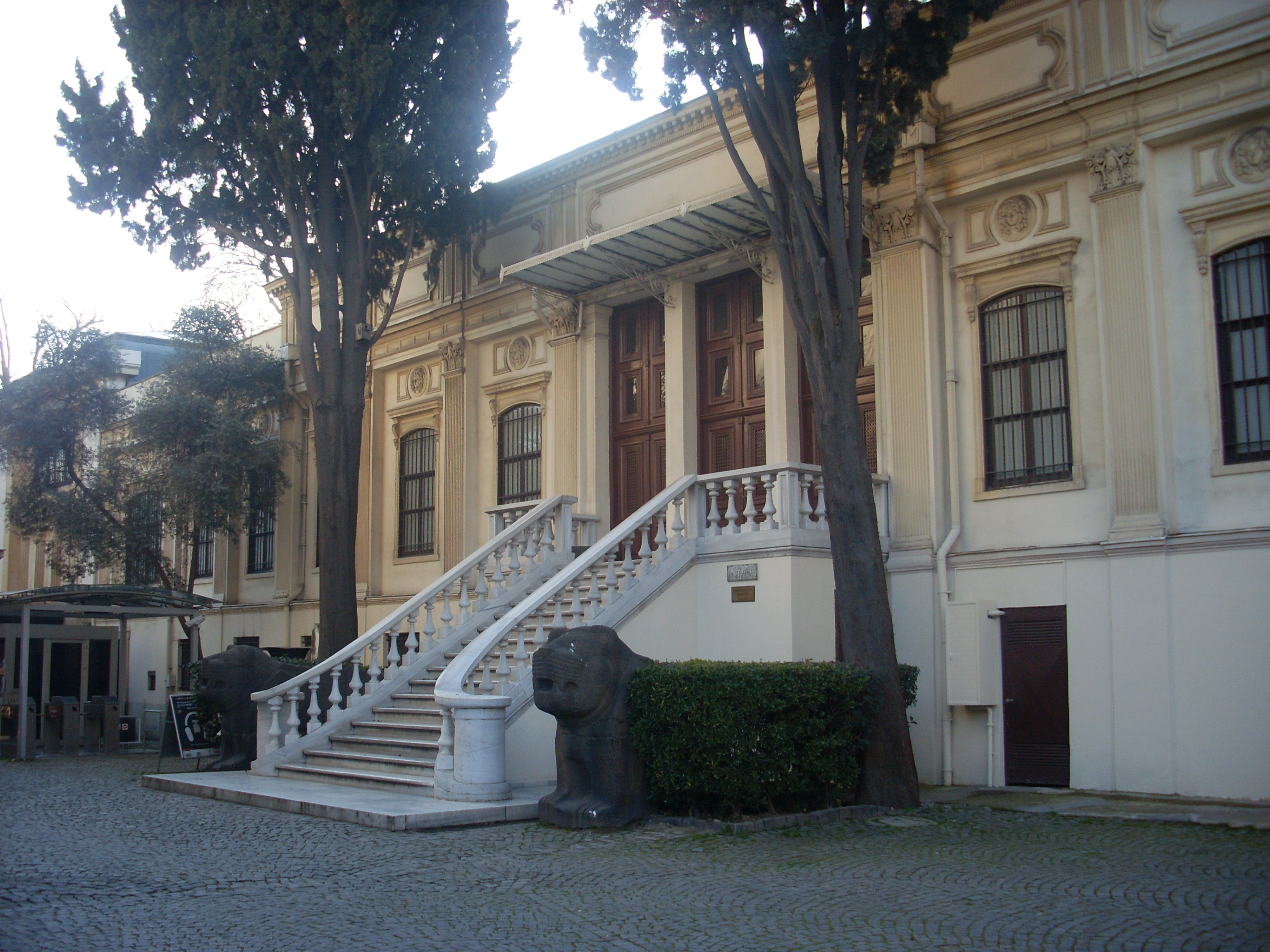 İstanbul - Sanayi-i Nefise Mektebi (Mimar Sinan University) r2 - Mar 2013